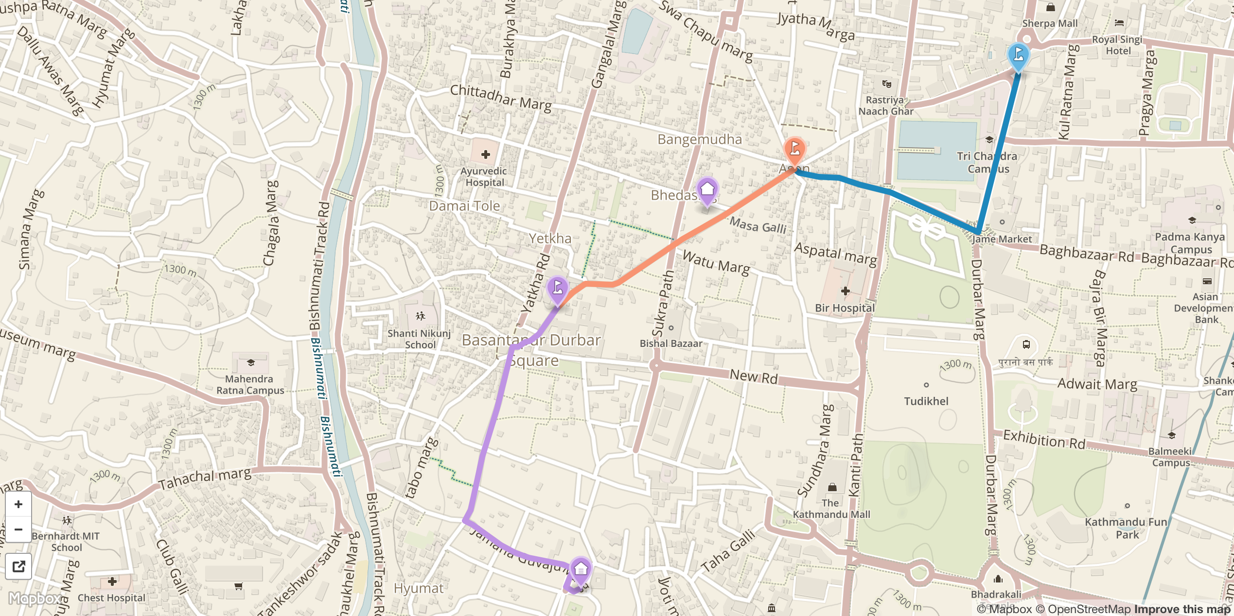 Route taken by Seto Macchindranath (Janabaha dyo) jatra in Kathmandu